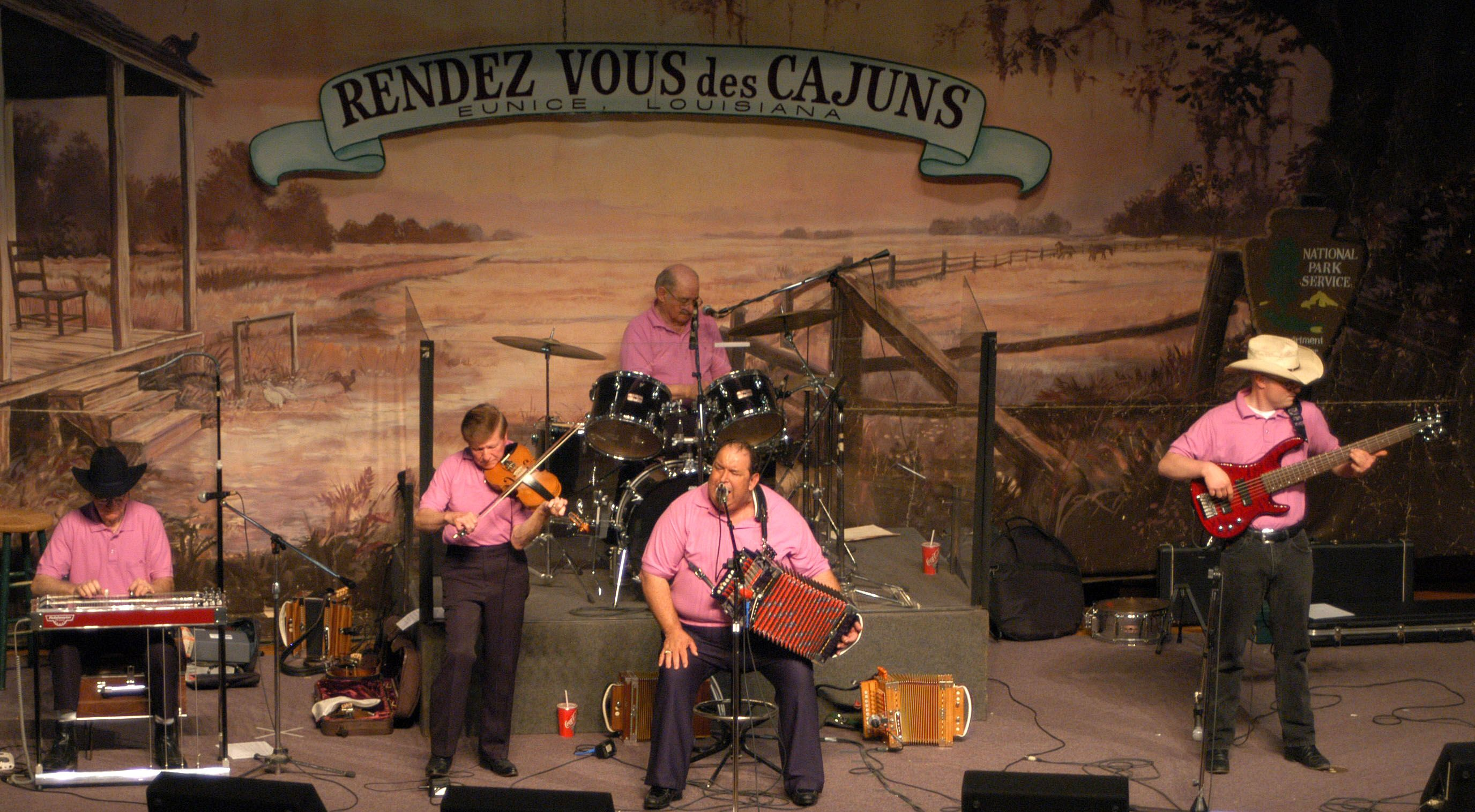 Lesa Cormier and the Sundown Playboys at the Liberty Theater in 2003: Larry Miller, Wallace "Red" Touchet, Lesa Cormier, August Broussard, Brian Cormier.